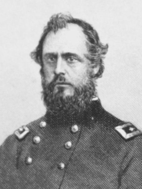 William P. Richardson (1824-1886), Ohio Brevet General and Ohio Attorney General.